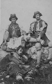 Three of the Dilesi bandits, photographed in April, 1870. Athens, 1870 Xenofon Vathis (ΦΑ_1_591)